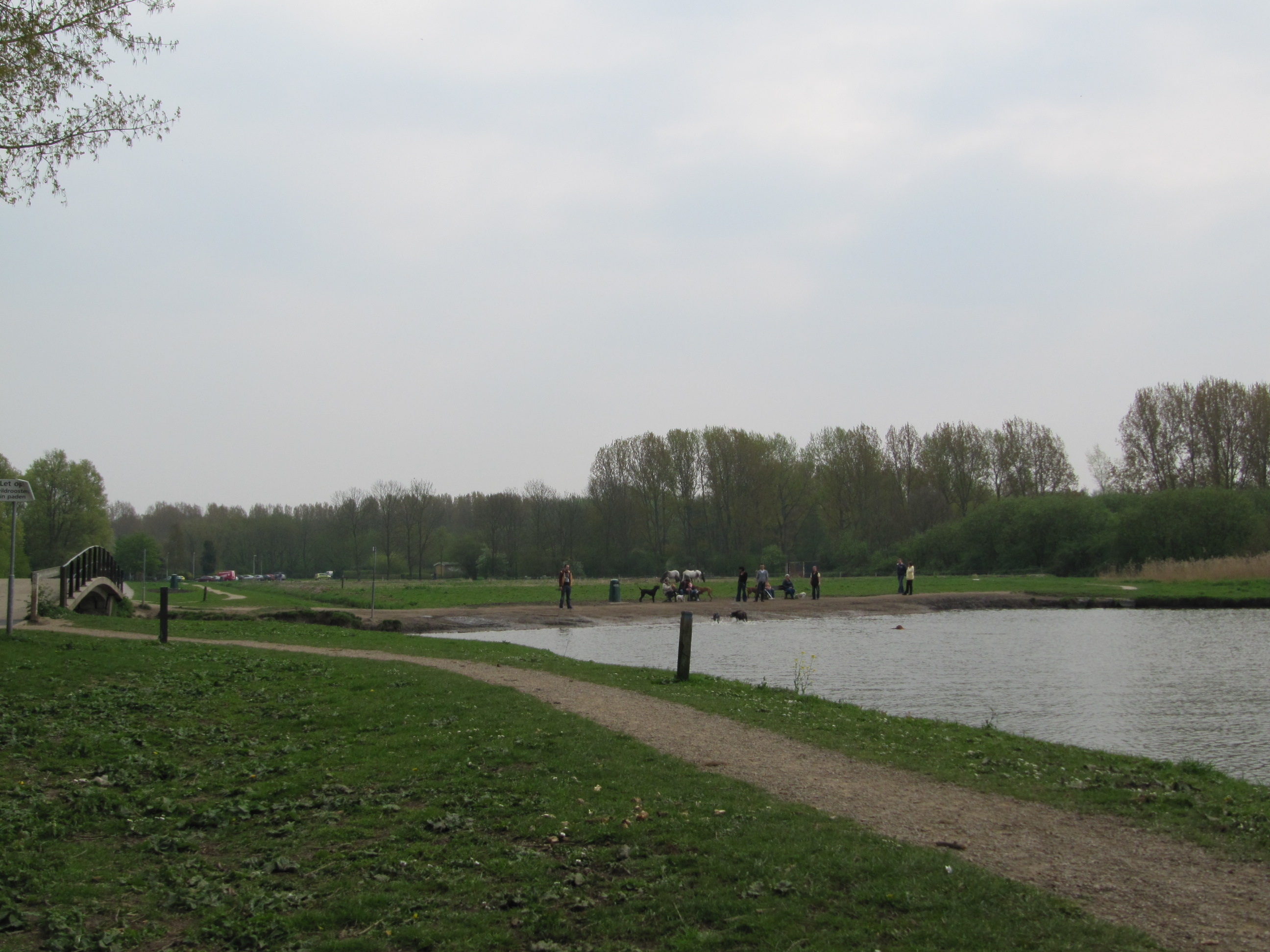 Lage_Bergse_Bos